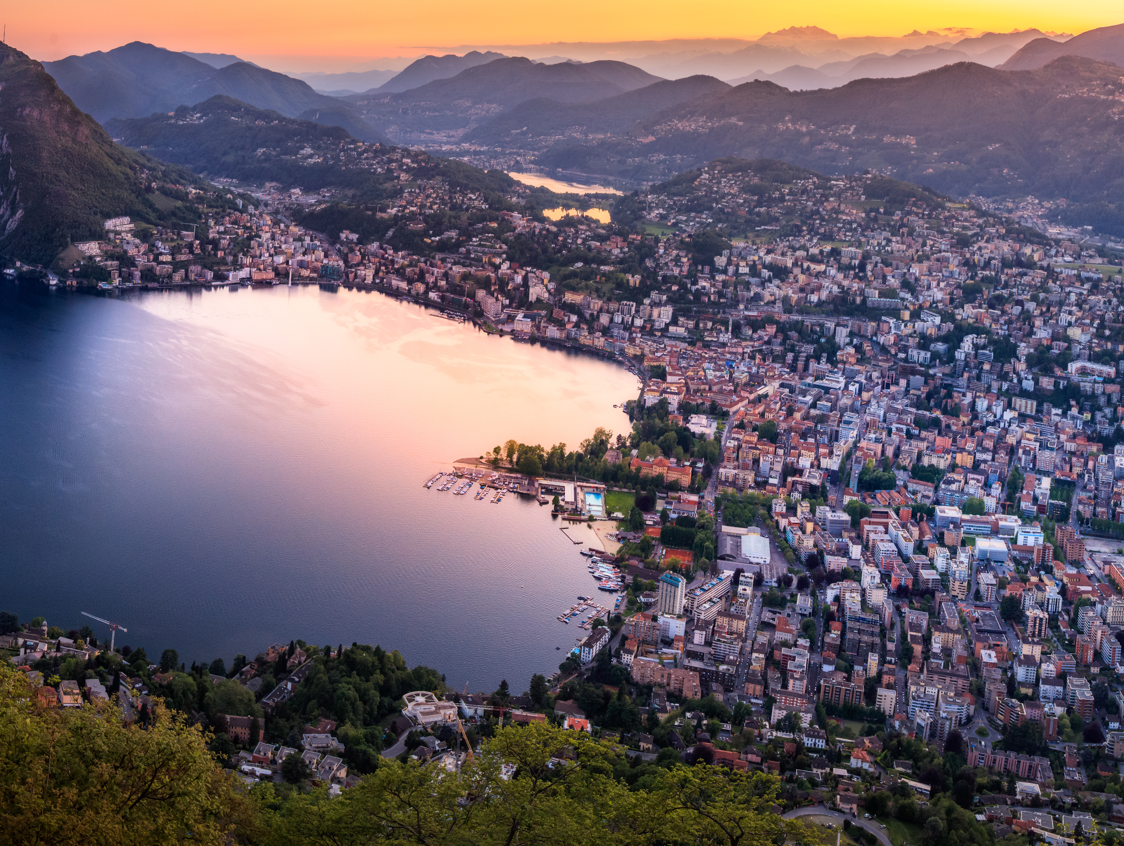 Lago di Lugano